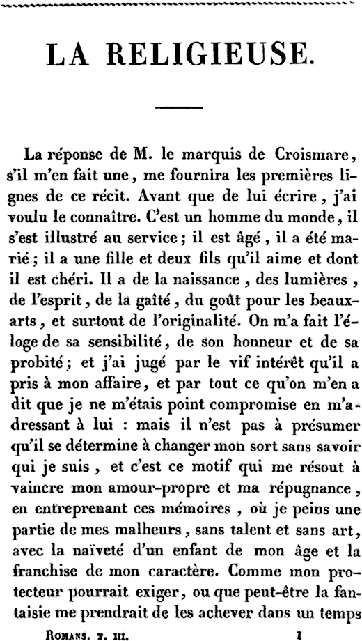 First page of The Nun by Denis Diderot (1713-1784).